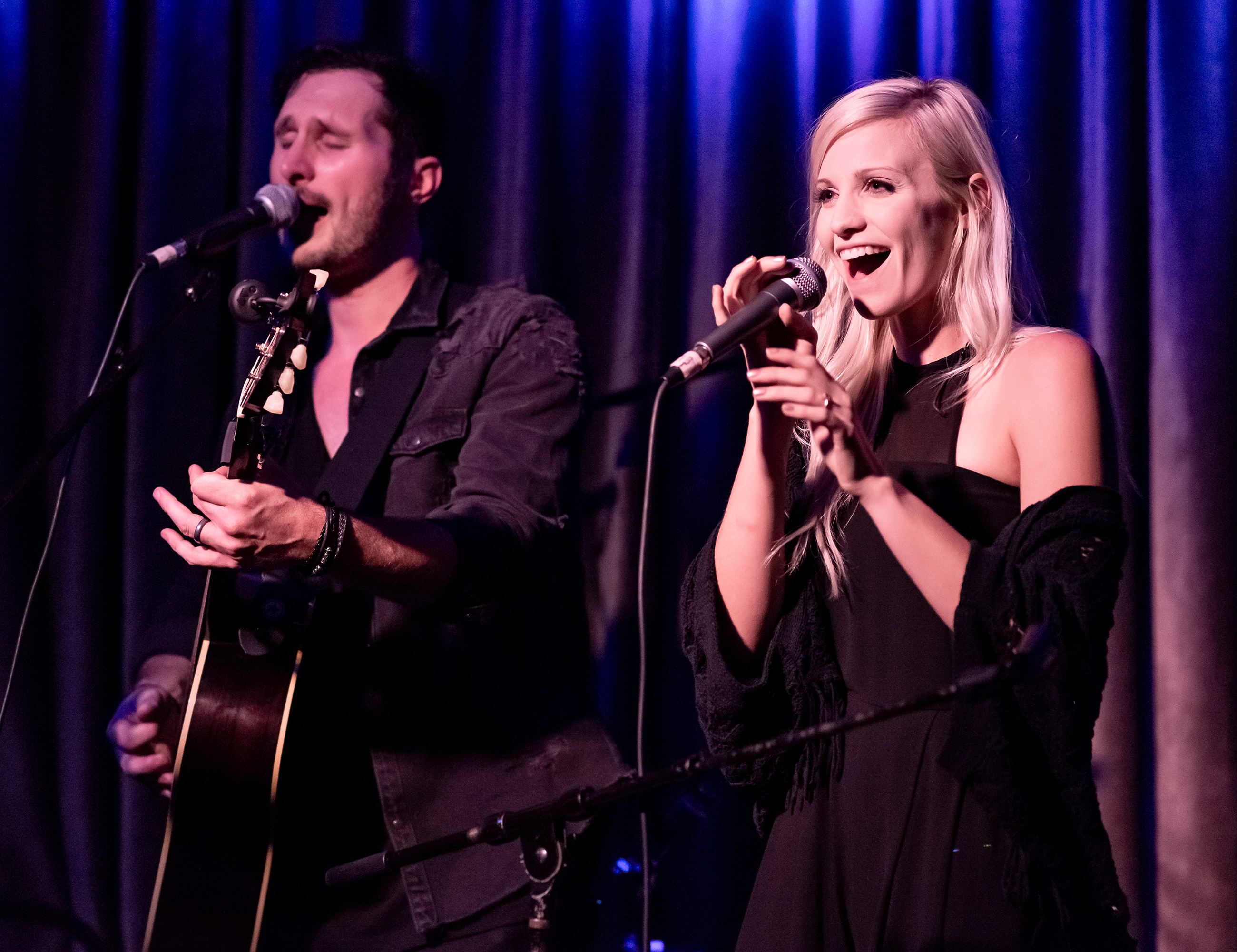 The Sweeplings performing live at the Hotel Cafe in Hollywood, Los Angeles, California, on Saturday, July 14, 2018.